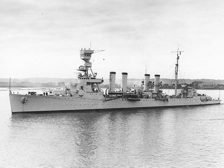 The U.S. Navy light cruiser USS Detroit (CL-8) in the harbour at San Diego, California, 10 January 1935.